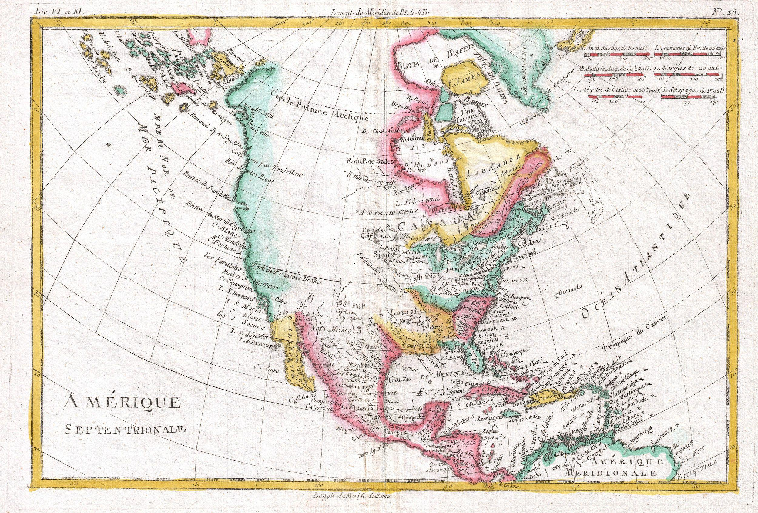 A fine example of Rigobert Bonne and Guilleme Raynal’s 1780 map of North America. Covers the entire continent from the high arctic to Central America, the Caribbean, and the Spanish Main. Offers an early perspective on the region including the identification of Louisiana, Virginia, Florida, and New England. The representation of the western coast of the continent is exceptionally primitive and corresponds to the pre-Cook conception of the territory. San Francisco Bay is nowhere in evidence unless it is interpreted as the “Port of Francois Drake”, where Drake sheltered and repaired his ships in 1579 - the exact location of which remains a mystery to this day. Alaska itself is not clearly present, but a vague mapping of an archipelago in the extreme northwest is suggestive of the Aleutian Islands. Bonne does note the entradas of Martin d’Aguiler and Jean de Fuca as well as certain lands that he suggests are the coasts seen by the Russian Arctic explorer Tszirikow, though this too is no doubt a misinterpretation of the Aleutian Archipelago. Bonne makes no suggestion of a northwest passage. In fact, he closes Baffin Bay and attaches it to Greenland. However, Bonne does leave open certain entradas, most specifically that of Jean De Fuca, suggesting a possible river route. That said, much of the western part of the continent was entirely unexplored and, not one to presume, Bonne chose to leave it blank. Certain American Indian nations, including the Sioux, Assenipoules, and the Apache are noted. All in all, this is a wonderful small map of North America just prior to the significant exploratory efforts of the late 18th and early 19th century. Drawn by R. Bonne for G. Raynal’s Atlas de Toutes les Parties Connues du Globe Terrestre, Dressé pour l'Histoire Philosophique et Politique des Établissemens et du Commerce des Européens dans les Deux Indes .